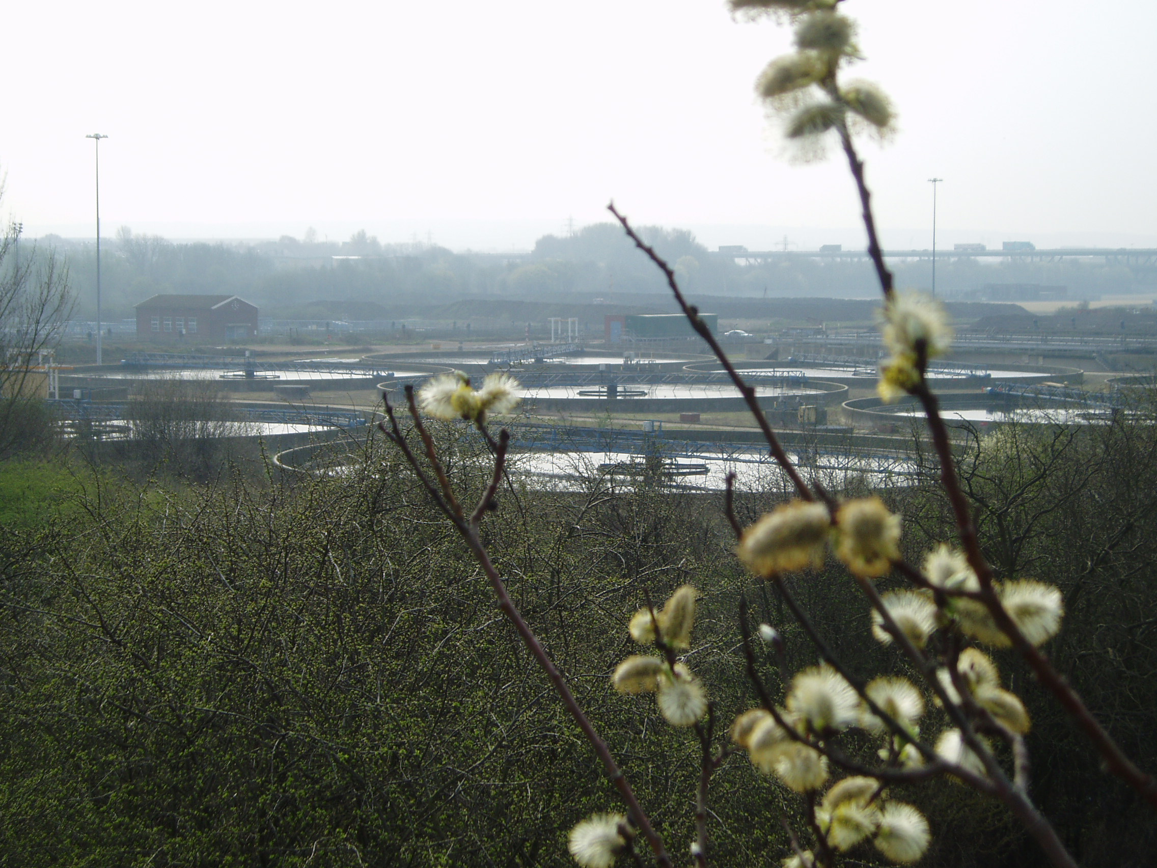 The settling tanks at Blackburn Meadows Sewage Treatment Works, the second largest in England